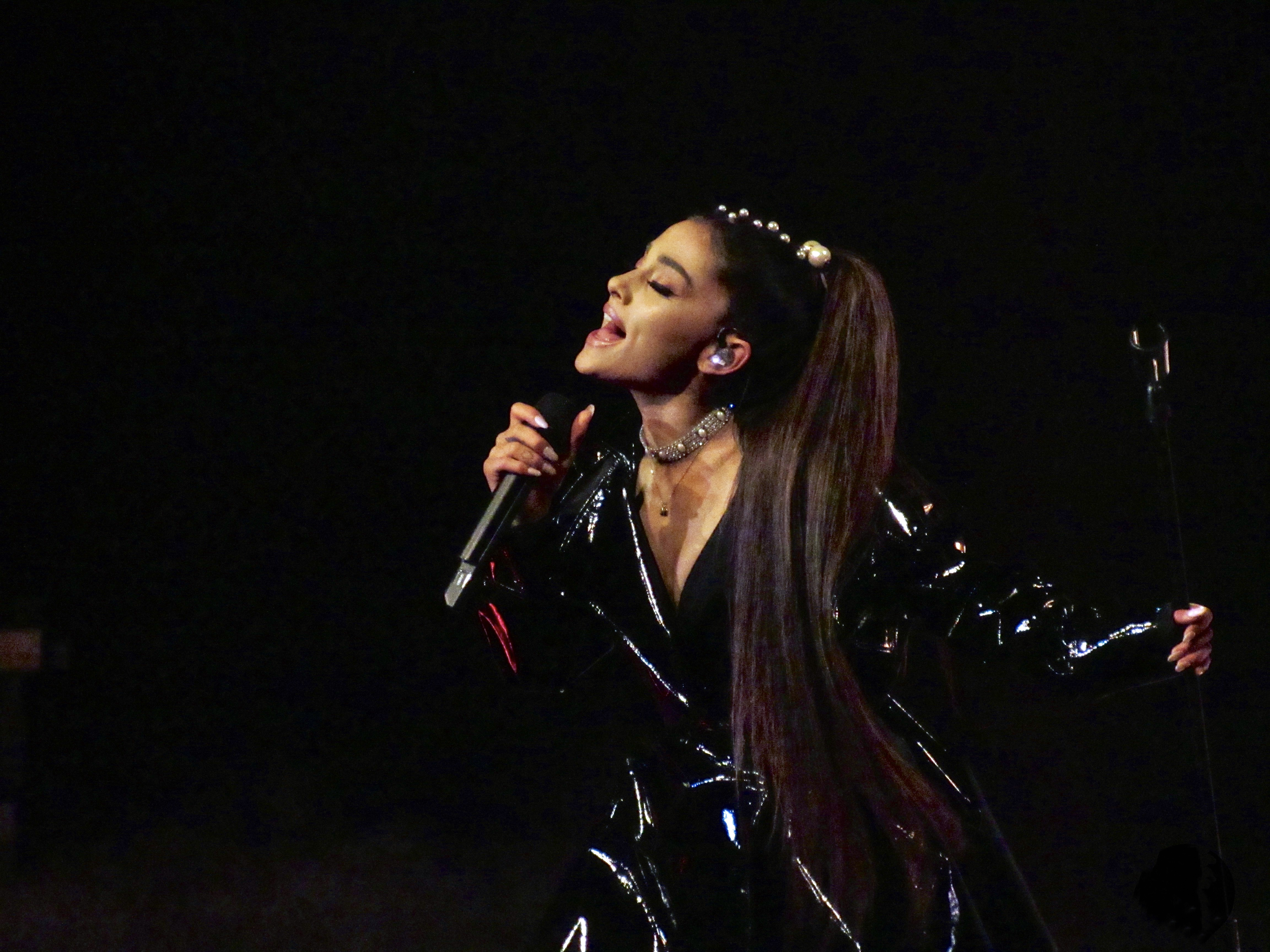 Dangerous Woman Tour 2/19/17 Ariana Grande performing during Dangerous Woman Tour in Manchester, New Hampshire, SNHU Arena, on February 19, 2017.